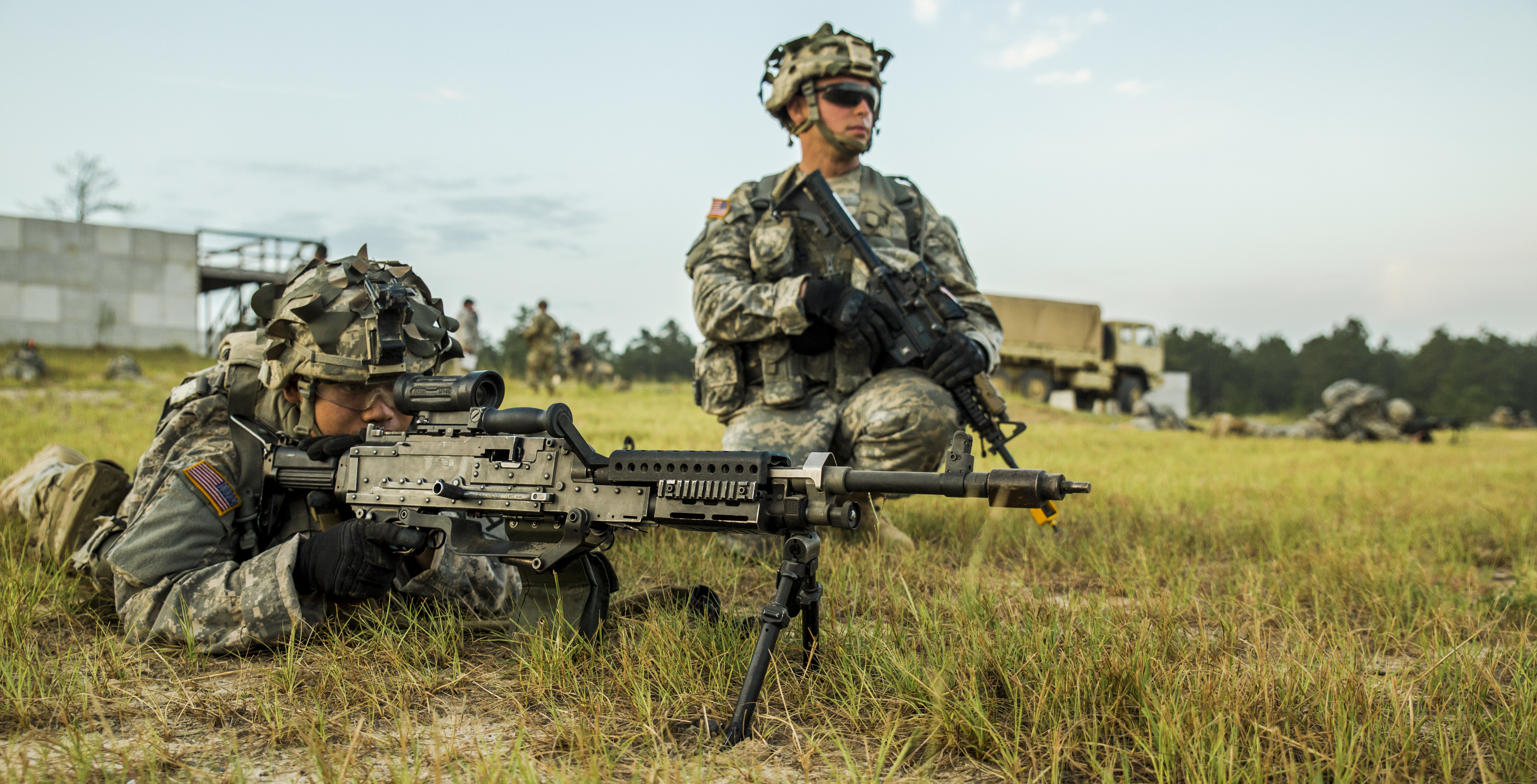 Spcs. Daniel Douangmaniley and John Jankowski of C Co., 1st Battalion, 182nd Infantry, Massachusetts Army National Guard, pull security during a four-day, company combined arms live-fire exercise conducted at Peason Ridge, La., Friday, July 15, 2016.